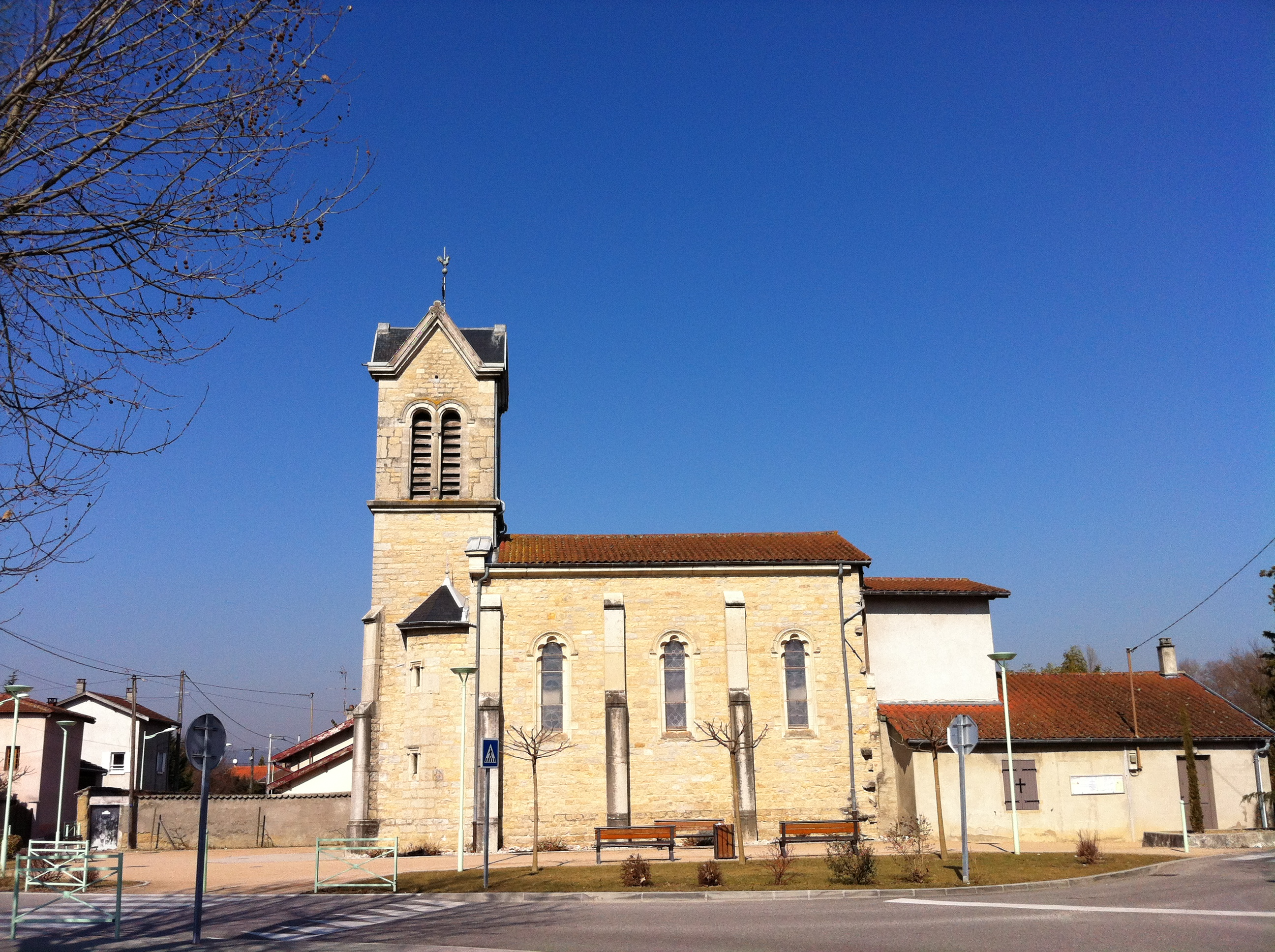 Church of Thil (Ain), France.